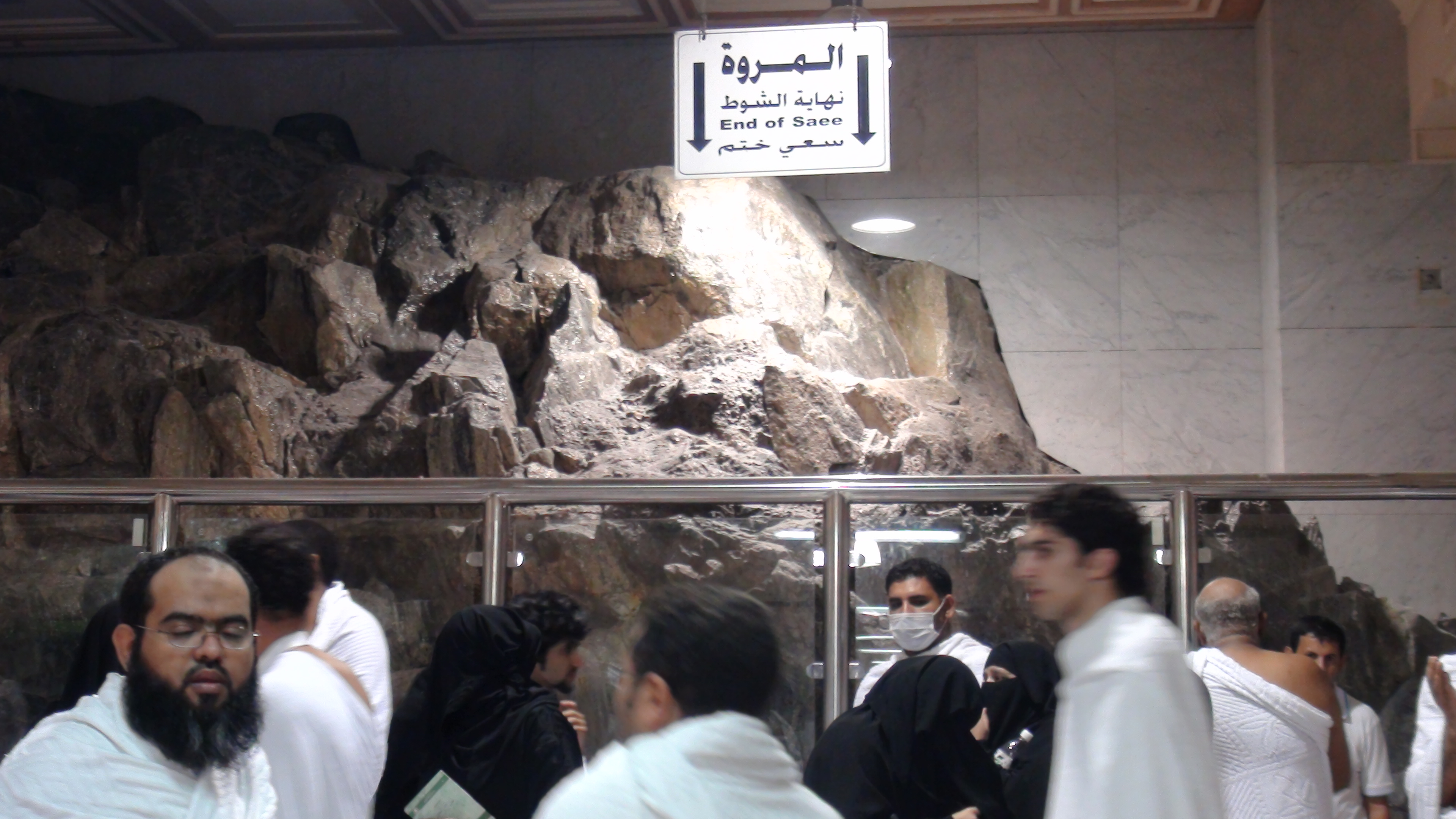 Panel guidance on Mount Al-Marwah exists inside the Grand Mosque in Mecca, It endins AL-Sa'yee